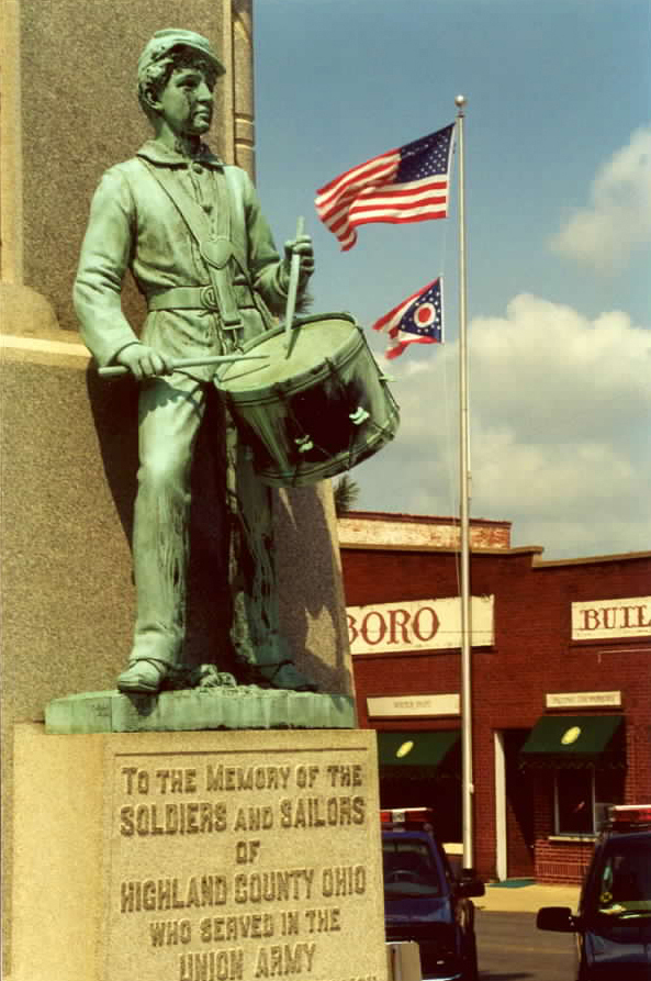 Soldiers & Sailors Monument, Hillsboro, Highland County, Ohio, sculpted by Caspar Buberl photo by Einar Einarsson Kvaran